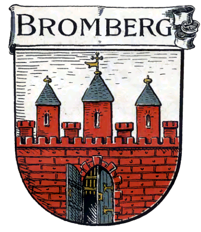 Coat of Arms of the city of Bydgoszcz.